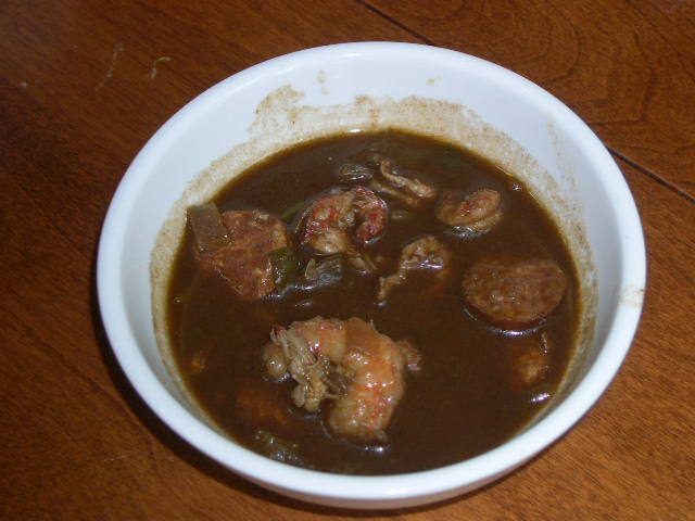 photo for a recipe on Wikibooks Photo of Cajun seafood gumbo